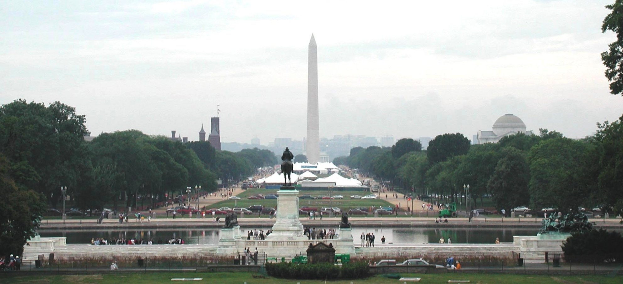 Facing West across the Washington Mall, with one's back towards the United States Capitol. The Washington Monument and Lincoln memorial are visible in the background.